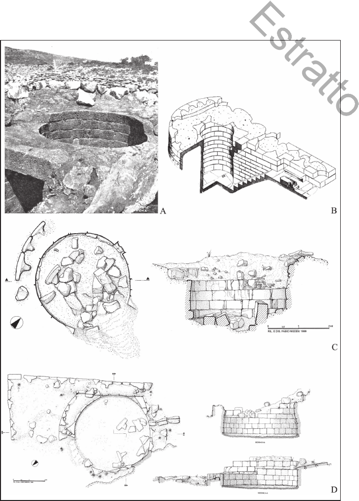 A. Serri, Santa Vittoria (da taralli 1914); B Perfugas, Predio Canopoli (da Campus, Pitzalis 2012); C, Guasila Gutturu Caddi (da Nieddu 2008); D, Siligo S.Antonio (da Nieddu 2008)